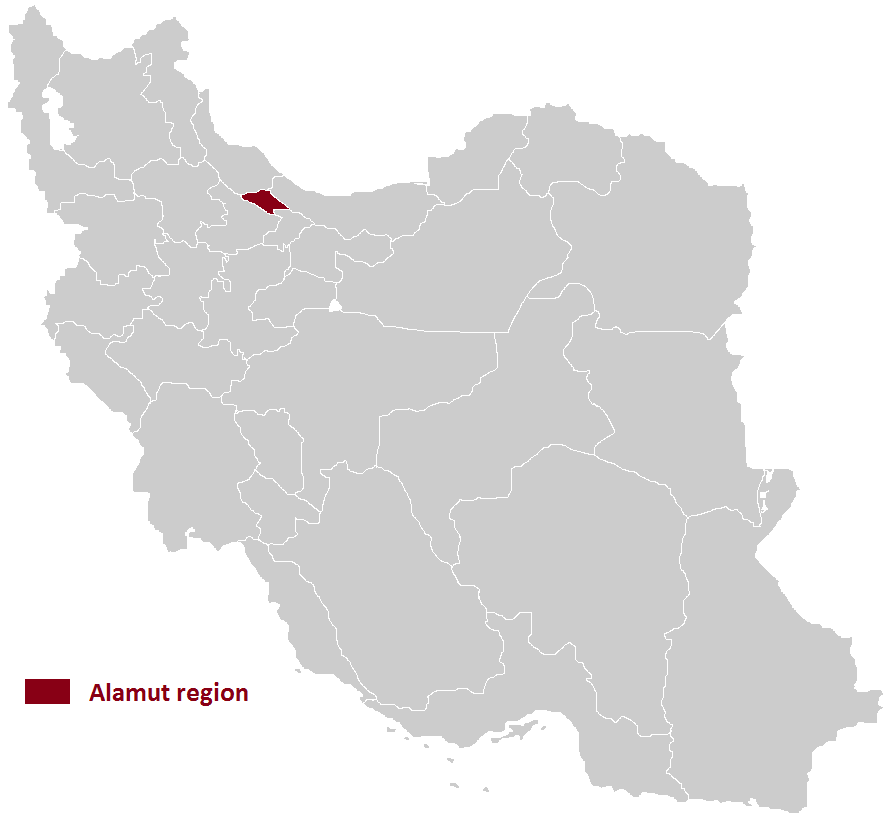 Alamut region in Iran according to latest divisions.